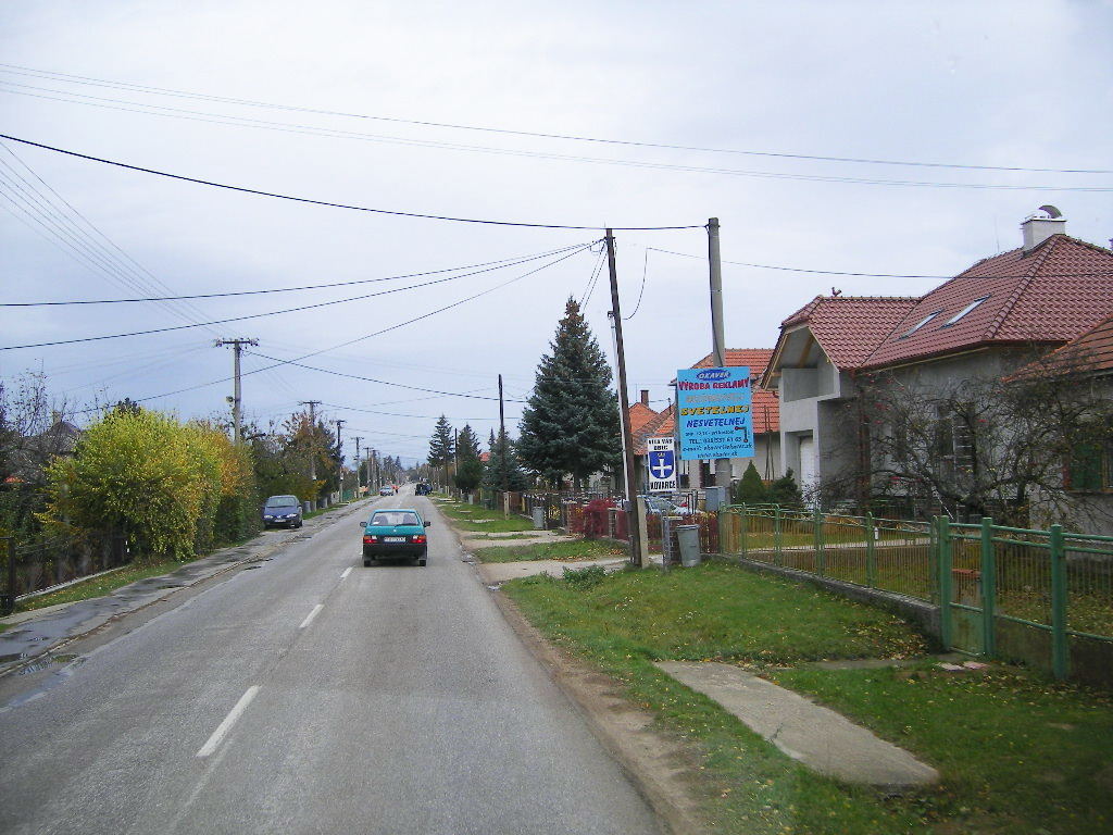 Kovarce - Route 593